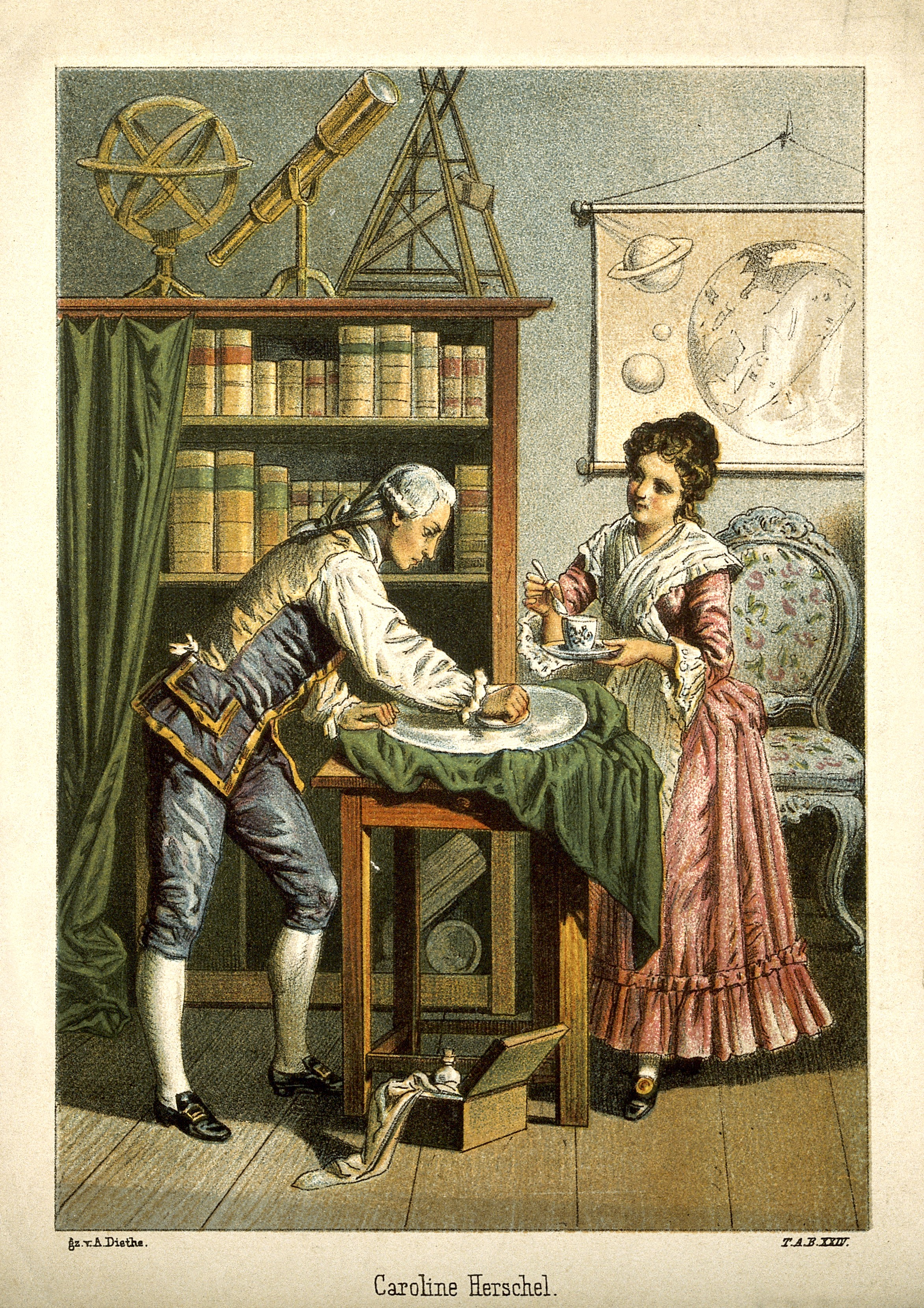 1896 Lithograph. Genre/Technique: Portrait prints. Lithographs. Subject name: Herschel, William Sir, 1738-1822.